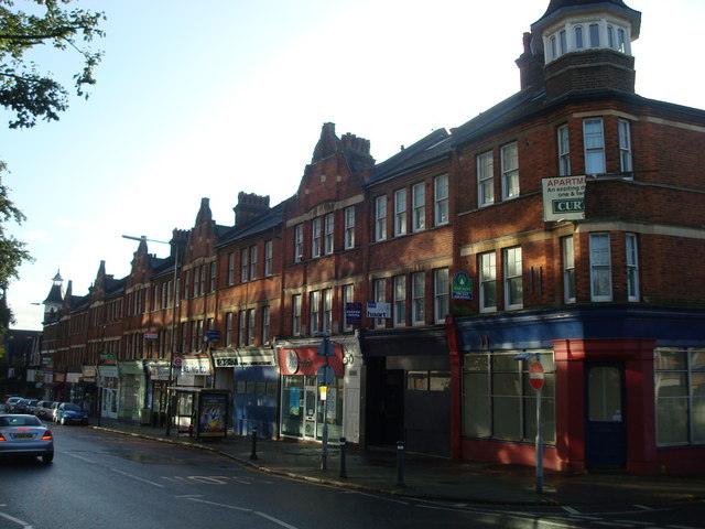 Shops, Beckenham Road, Beckenham